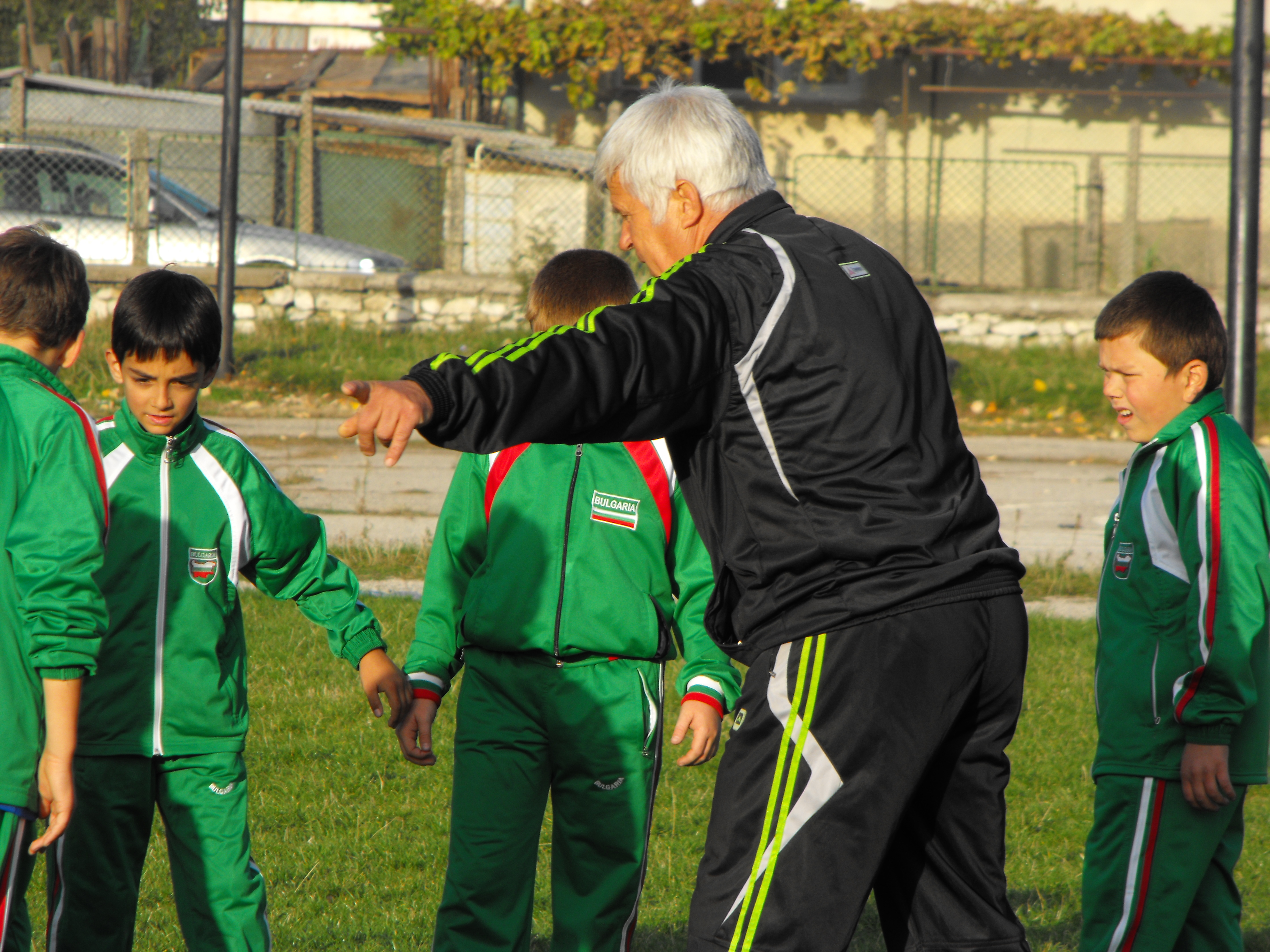 Mladen Vasilev football training with junior team